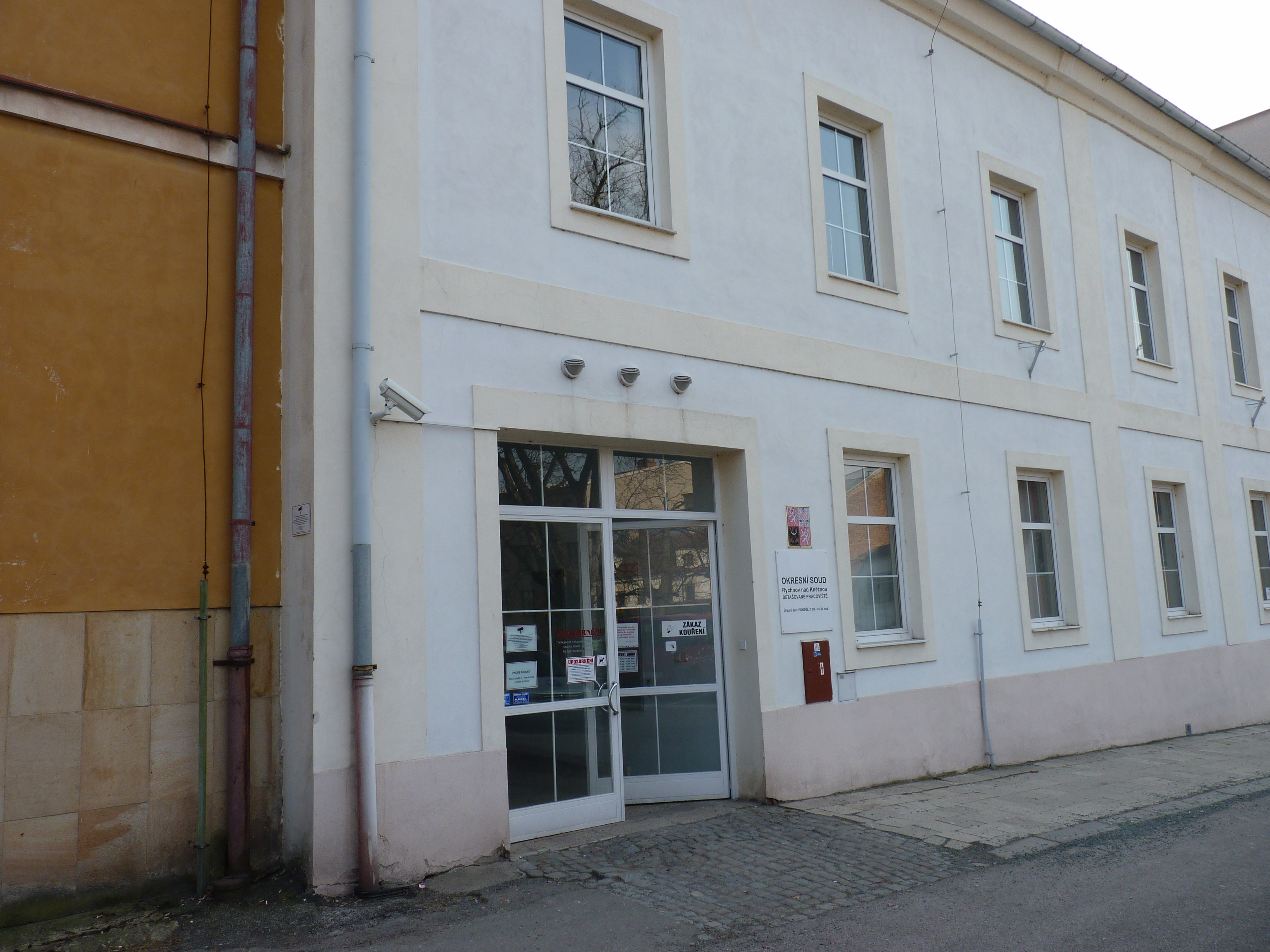 District court of Rychnov nad Kněžnou